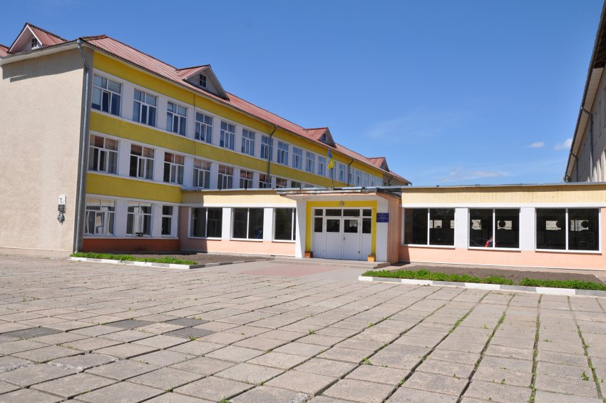 School of general education №3